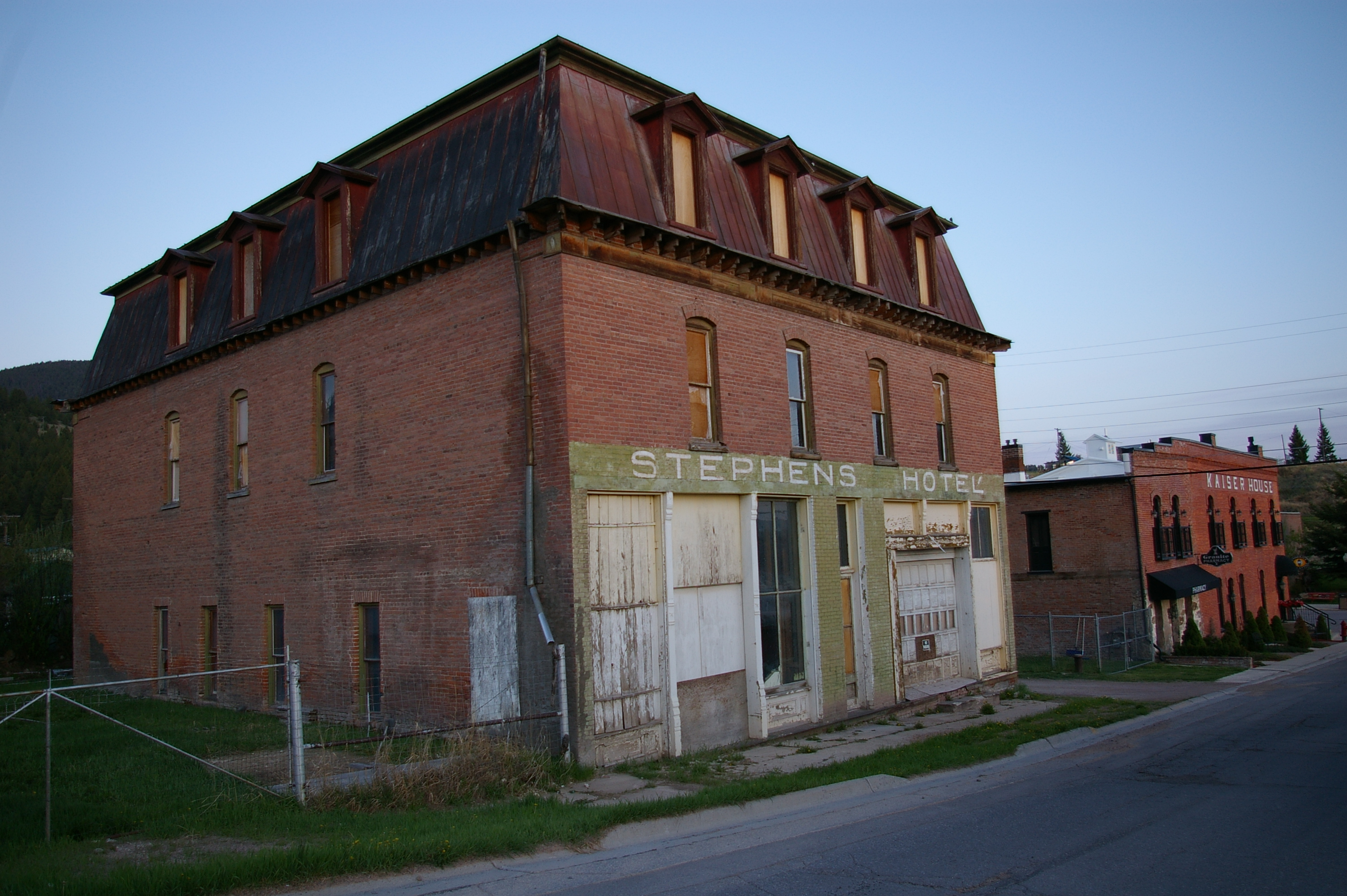 Also known as the Kaiser House Annex, the Stephens Hotel on East Broadway is a contributing property in the Philipsburg Historic District, Philipsburg, Montana, United States.